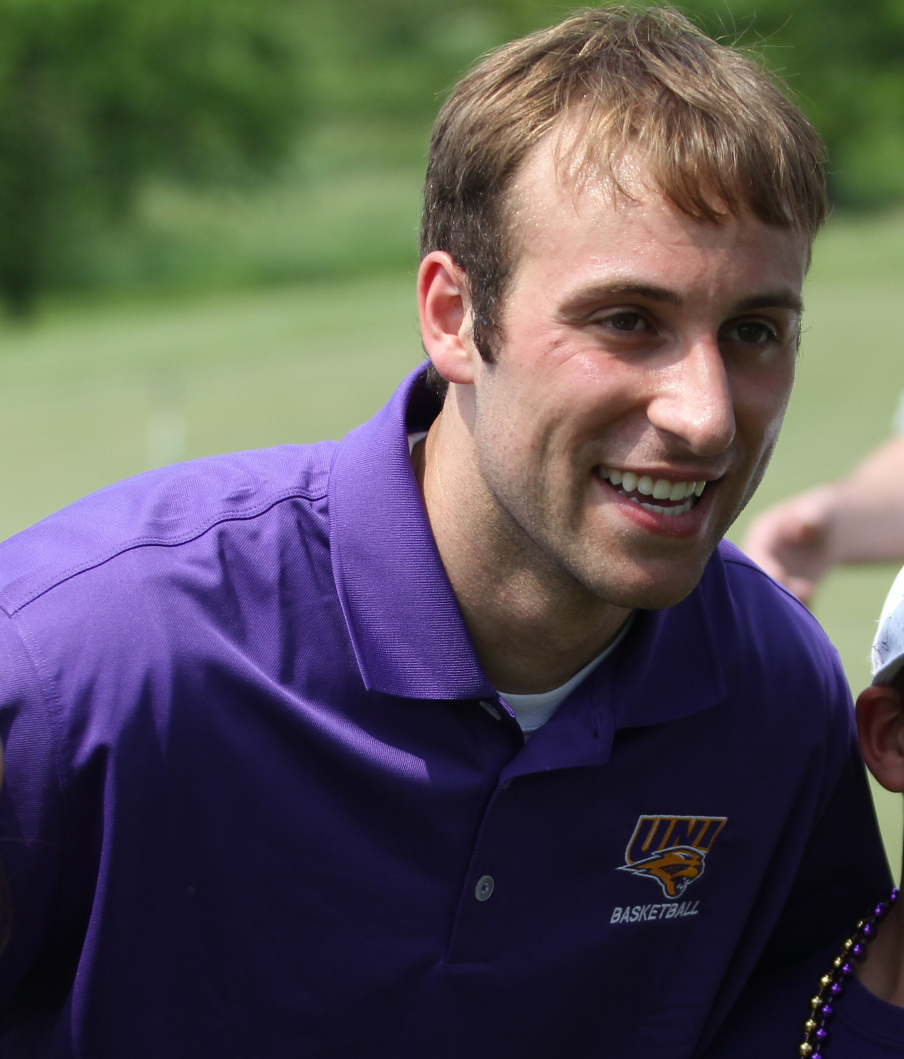 Ali Fredrick Farokhmanesh (born April 16, 1988) is an American professional basketball player.